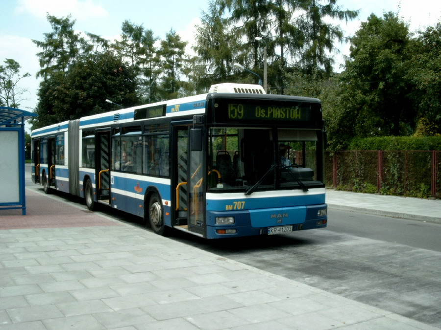 MAN NG313 city bus (#BM707) in Kraków, Poland, terminus Cichy Kącik. Built 2001, MPK Kraków company.